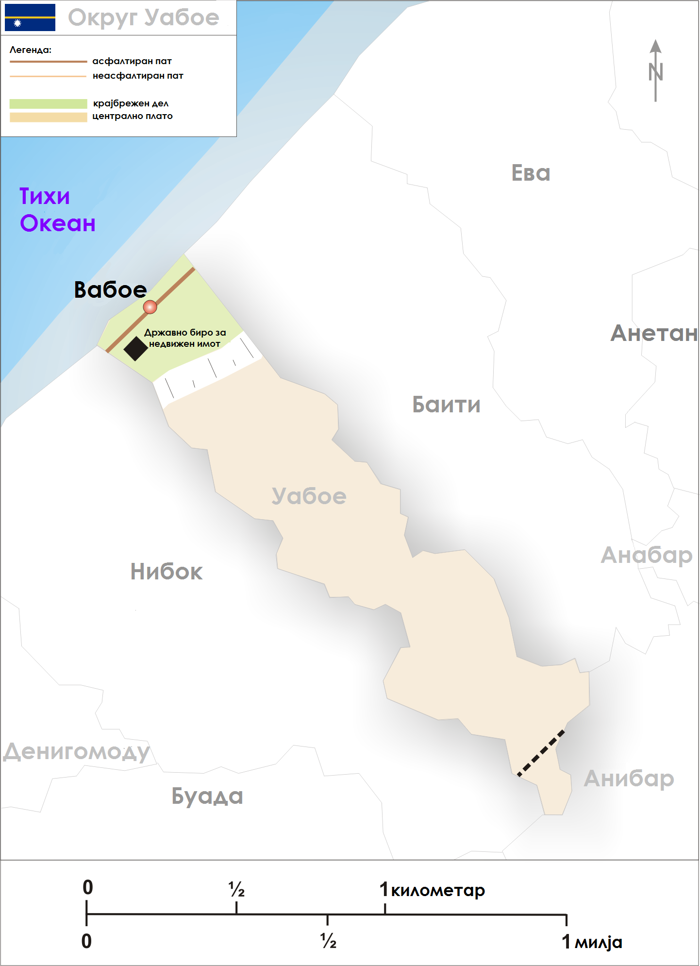 Map of Uaboe Districst, Nauru.